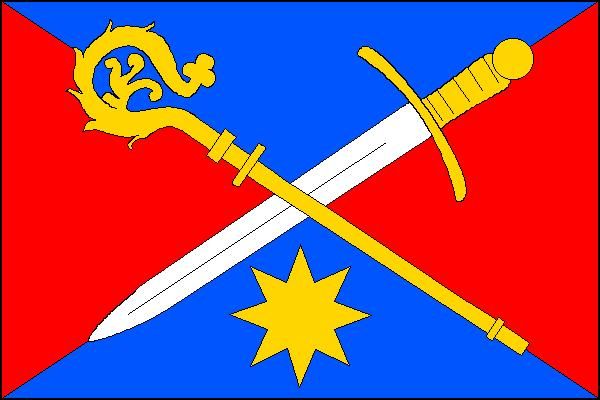 Flag of the municipal corporation Pitín (Czech republik)